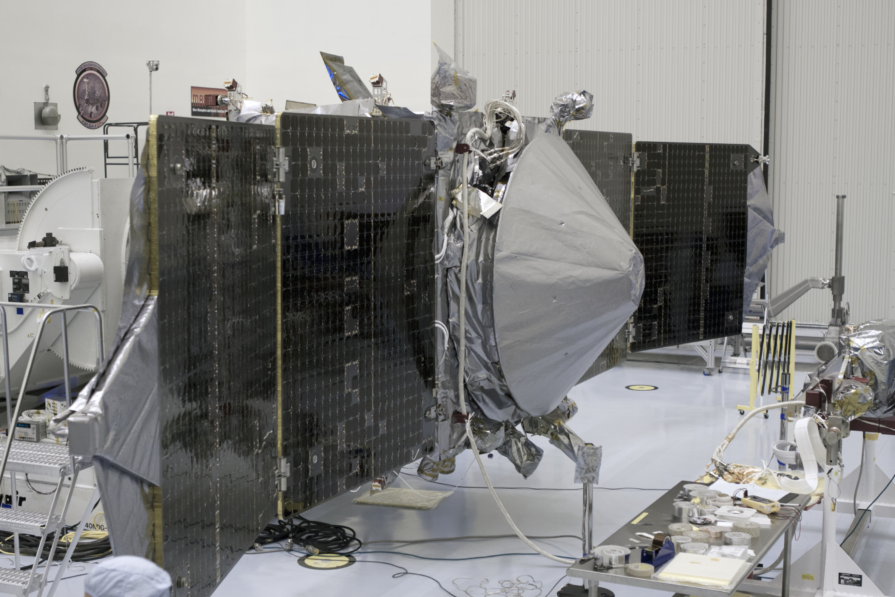 Inside the Payload Hazardous Servicing Facility at NASA's Kennedy Space Center in Florida, engineers and technicians have begun the process to stow the power-generating solar arrays for the Mars Atmosphere and Volatile Evolution, or MAVEN, spacecraft. MAVEN is being prepared for its scheduled launch on Nov 18, 2013 from Cape Canaveral Air Force Station, Fla. atop a United Launch Alliance Atlas V rocket. Positioned in an orbit above the Red Planet, MAVEN will study the upper atmosphere of Mars in unprecedented detail.